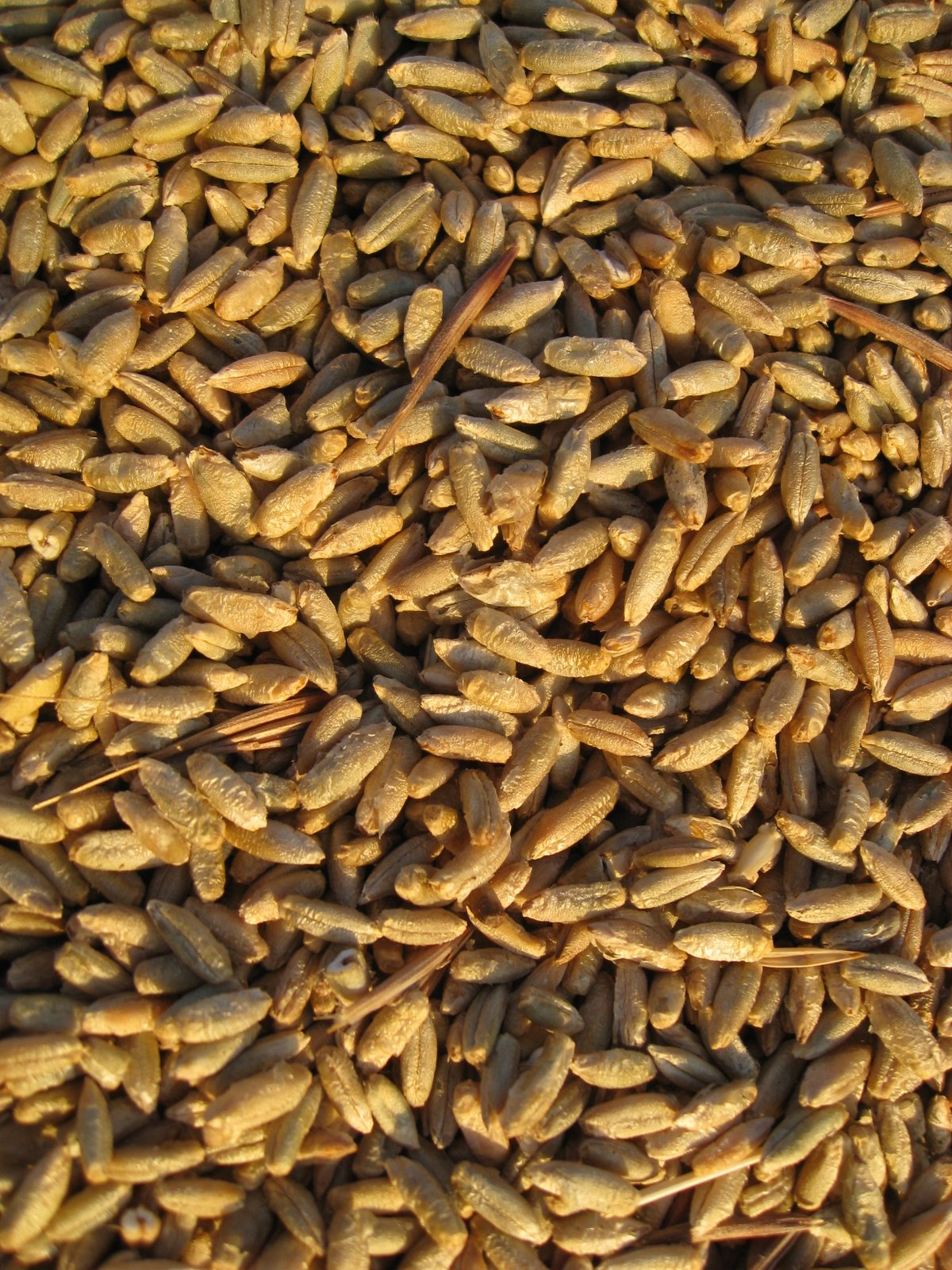 rye